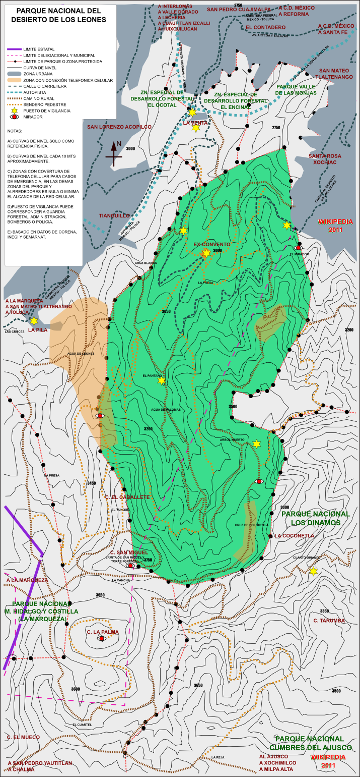 Map of Desierto de los Leones National Park. Located entirely in the western Federal District of Mexico (Mexico City), in the boroughs of Cuajimalpa and Álvaro Obregón. Created from data from INEGI, CORENA and National Meteorological System —